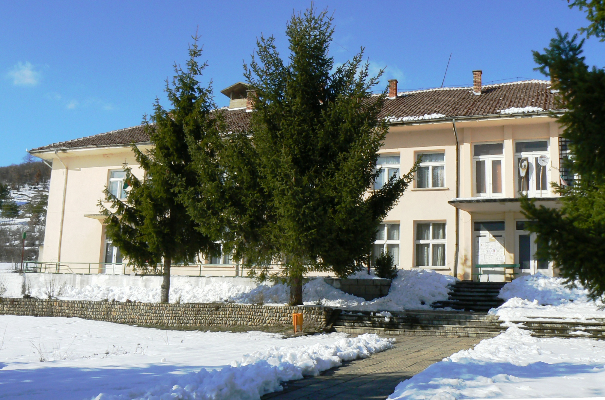 The mayors office and post office of village Batultsi, Bulgaria